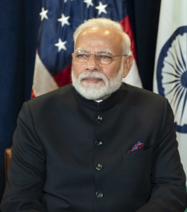 President Donald J. Trump and India’s Prime Minister Narendra Modi, joined by members of their delegations, participate in a bilateral meeting Tuesday, September 24, 2019, at the United Nations Headquarters in New York City. (Official White House Photo by Shealah Craighead)